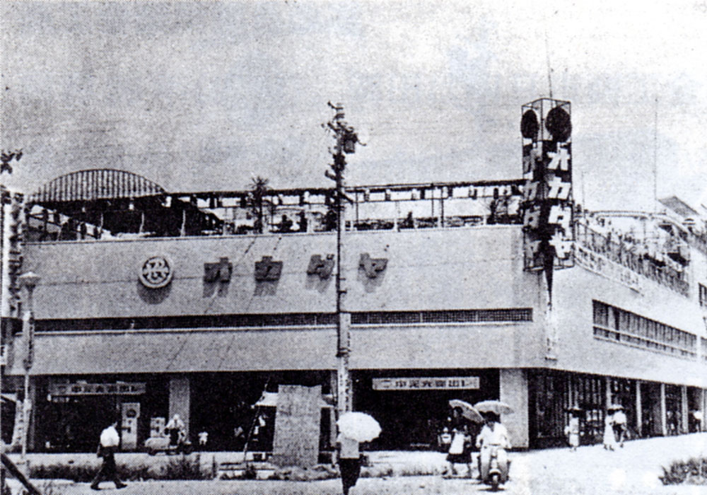 Okadaya, Yokkaichi-City Mie Japan.